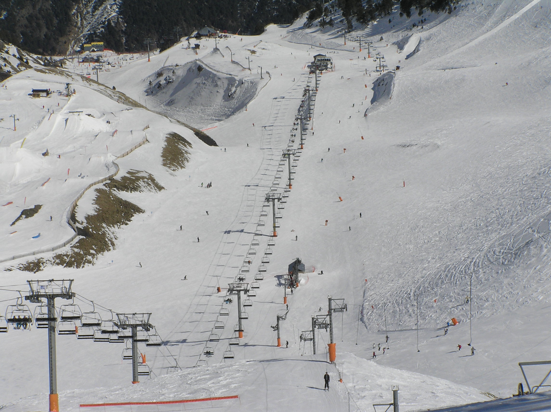 Zoomed in view from the top of the Arinsal sector in Andorra. This is part of the Vallnord ski area.